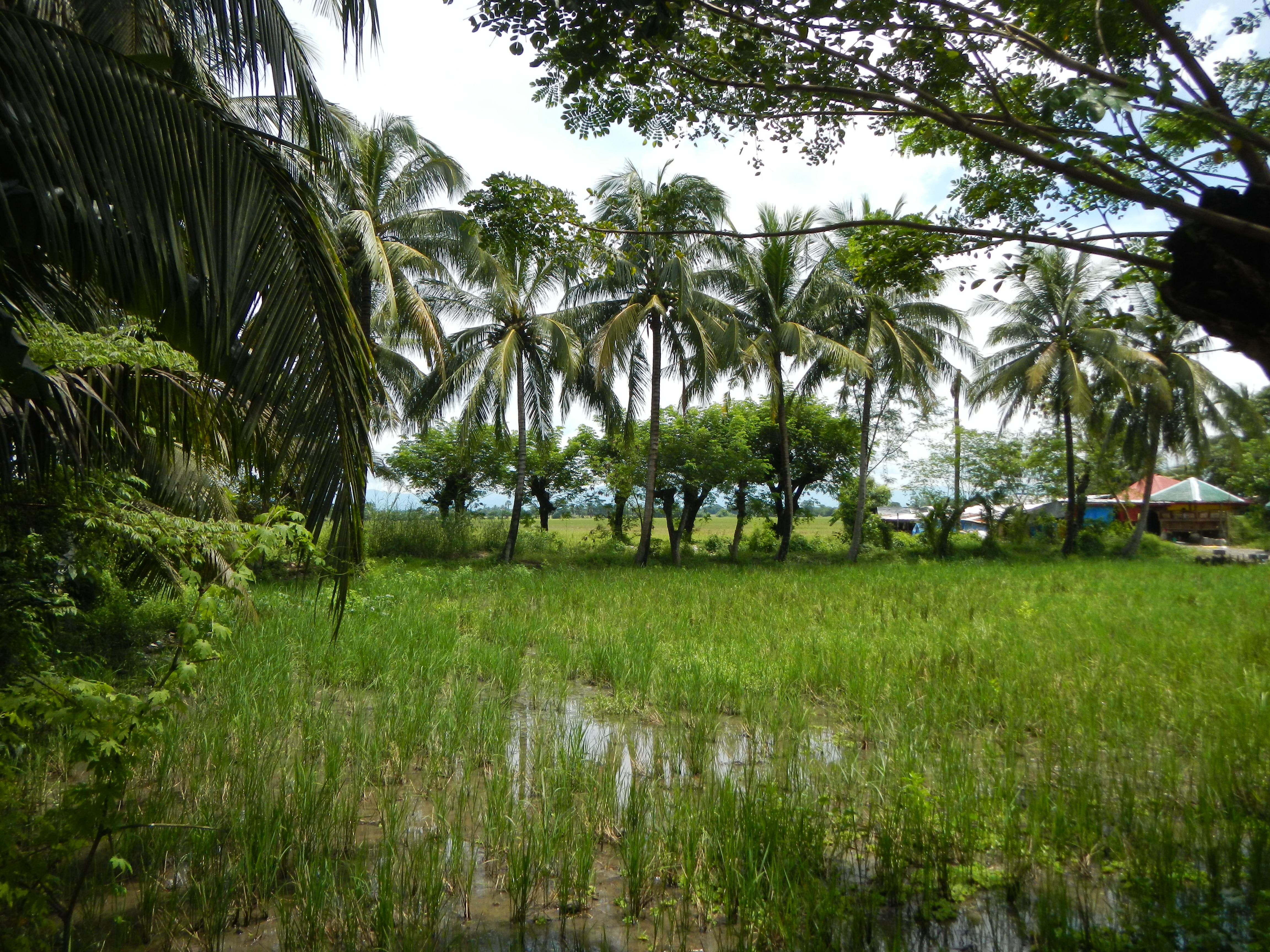 Gapan City[1], rice fields